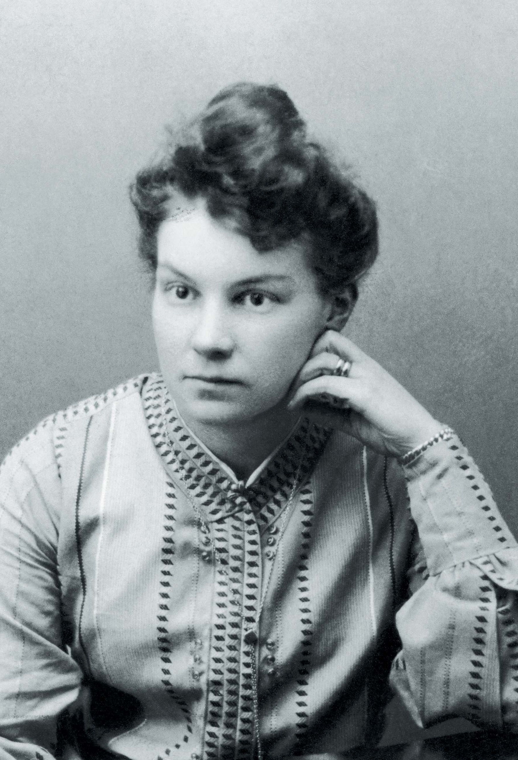 Onerva Lehtinen, Finnish poet, known as L. Onerva.